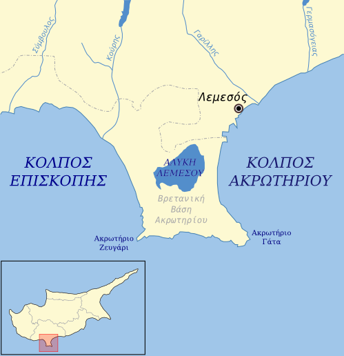 Map of the Akrotiri area in Cyprus, greek labels.